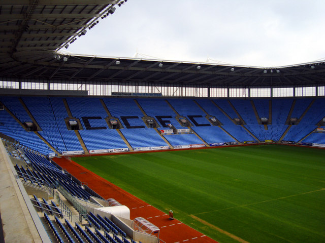 Ricoh Arena, near to Longford, Coventry, Great Britain. Football Stadium where Coventry City play.